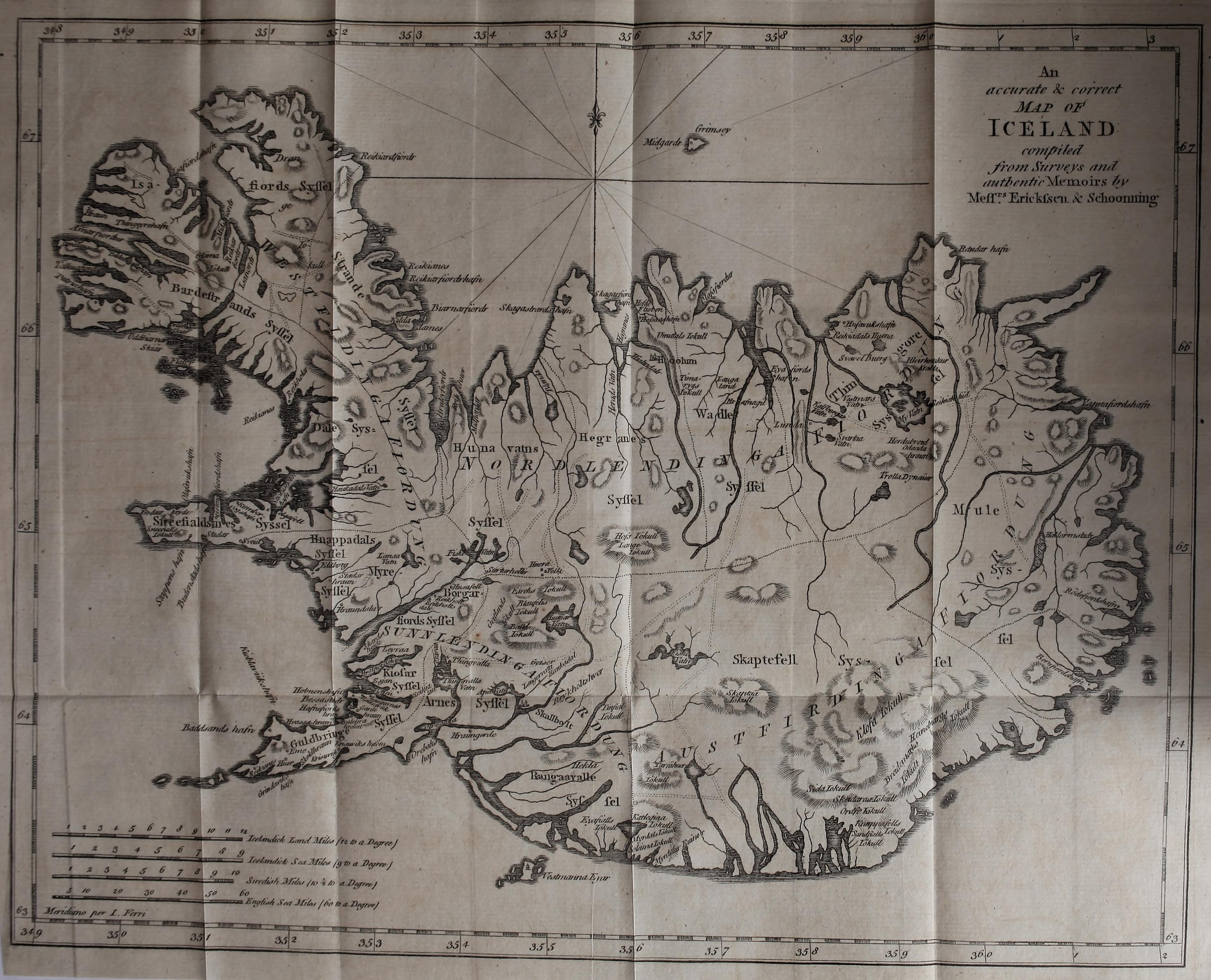 "An accurate & correct Map of ICELAND compiles from Surveys and authentic Memoirs by Messrs Ericksen & Schoonning"